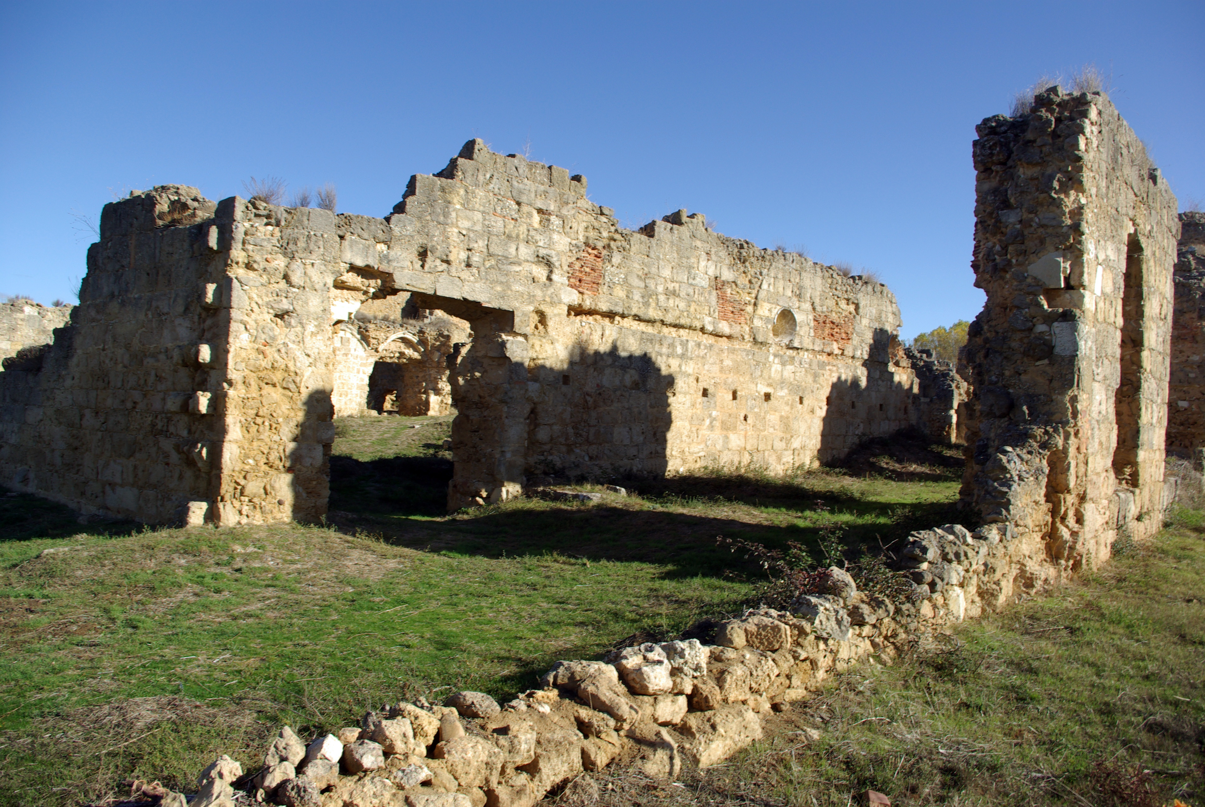 Monastery of Saint Peter of Eslonza ruins in Santa Olaja de Eslonza, Gradefes (León, Spain).